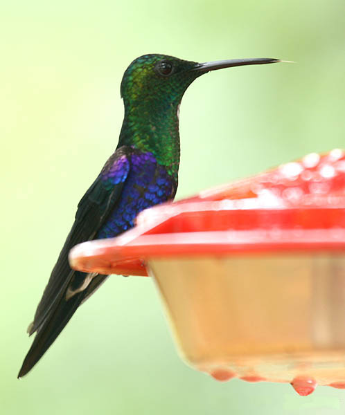 Green-crowned Woodnymph (Thalurania fannyi). A male at Bird Sanctuary, NW Ecuador.